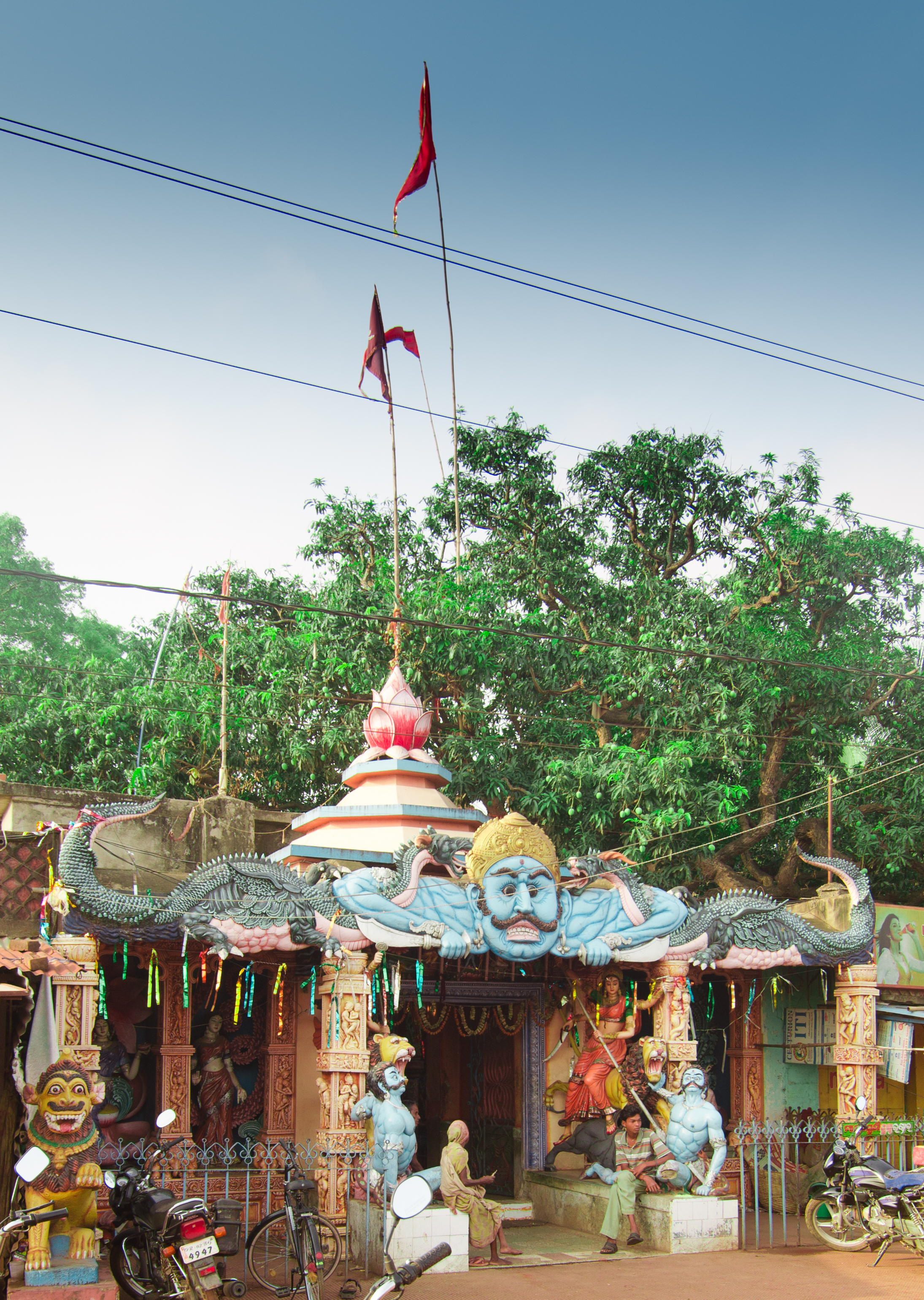 Maa Baata Bhuaasuni Temple near Jatani